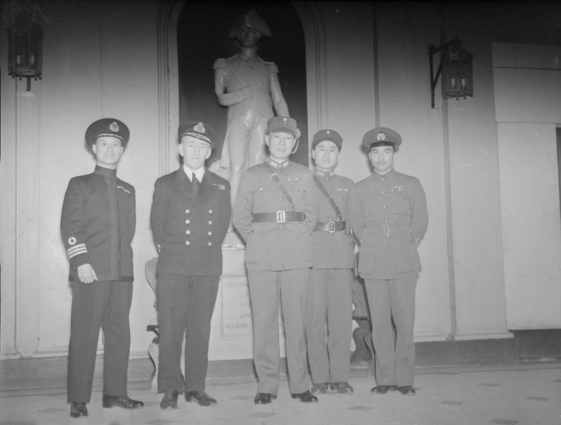 Chinese General Visits the Admiralty. 23 February 1943, the Admiralty, General Hsiung Shih-hui, Head of the Chinese Military Mission To Washington Since Summer 1942, Is Making a Brief Visit To the United Kingdom Before Returning To Chunking. With Him Are 2 Members of the Mission Staff, Dr Ho Fung-shan, and Captain Li Ming-hsiea. In front of the Nelson Statue at the Admiralty, left to right: Commander Chow Ying-tsung (Chinese Naval attache); Rear Admiral R R McGrigor; Lt Hsiung Shih-hui; Lt Colonel Tang Pao-Luang (Chinese Military Attache); Air Major Huang Pun-young (Chinese Air Attache).